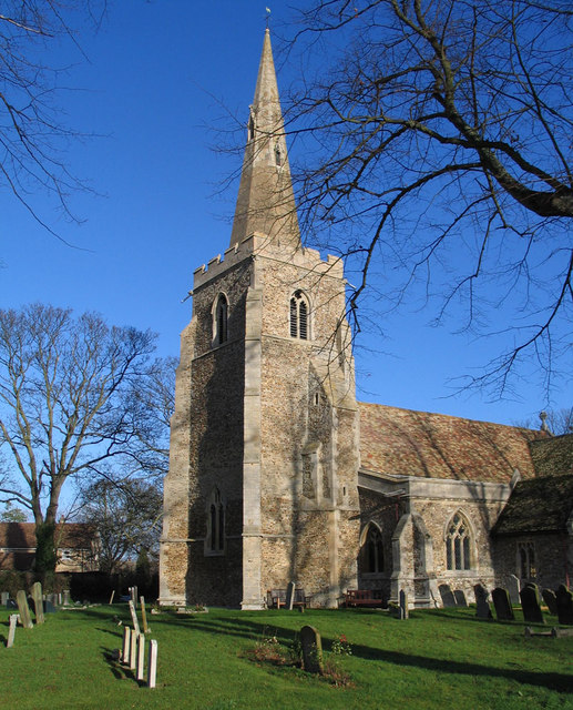 All Saint's Church, Longstanton